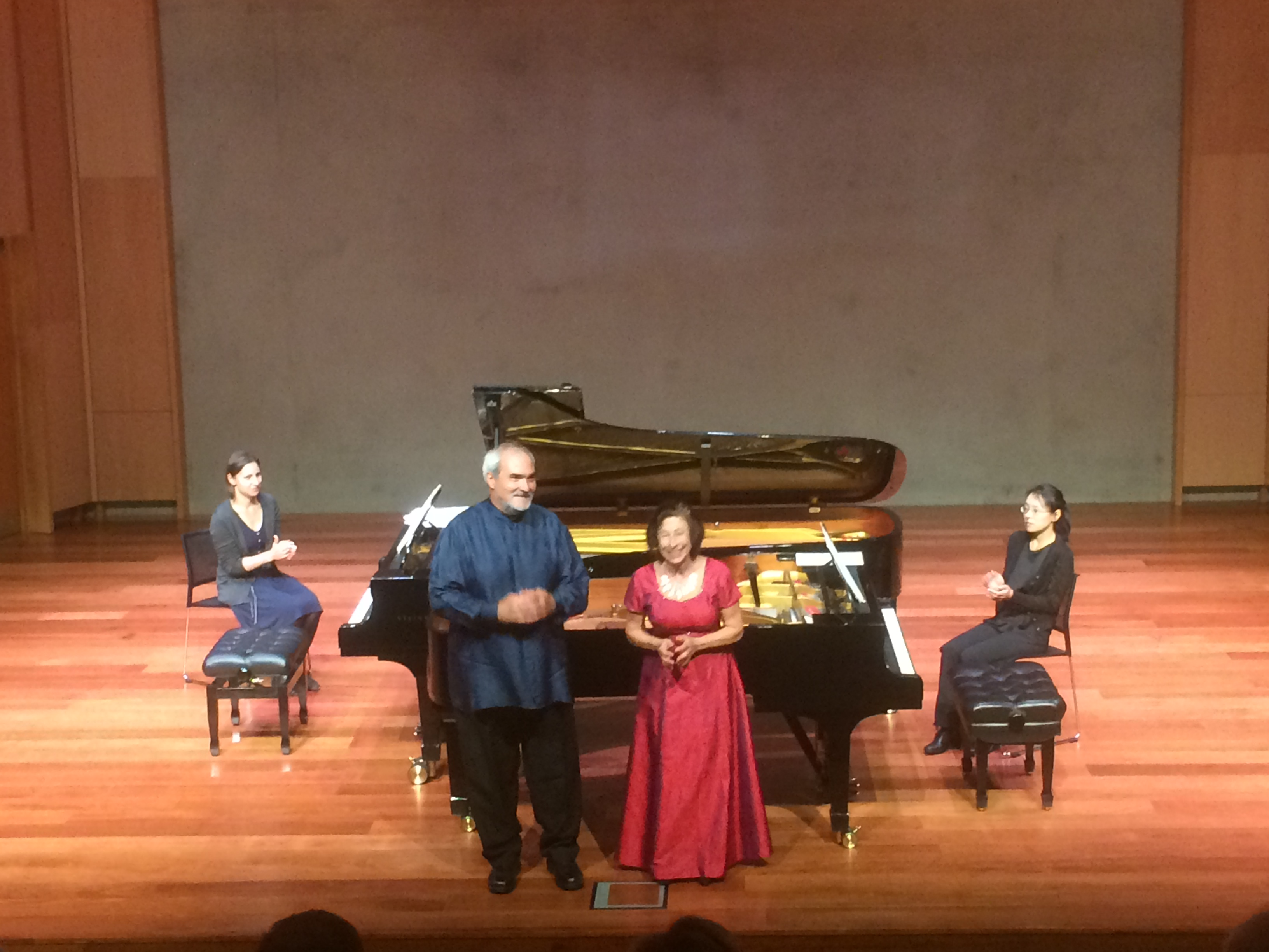 Edith Fischer and Jorge Pepi-Alos performing at The Piano in Christchurch